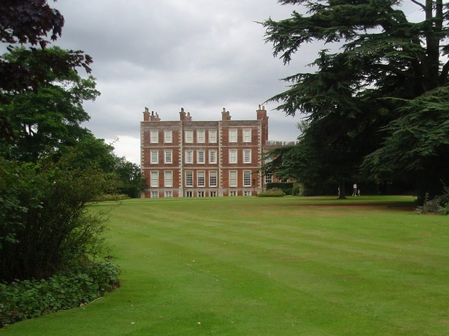 Gunby Hall rear elevation